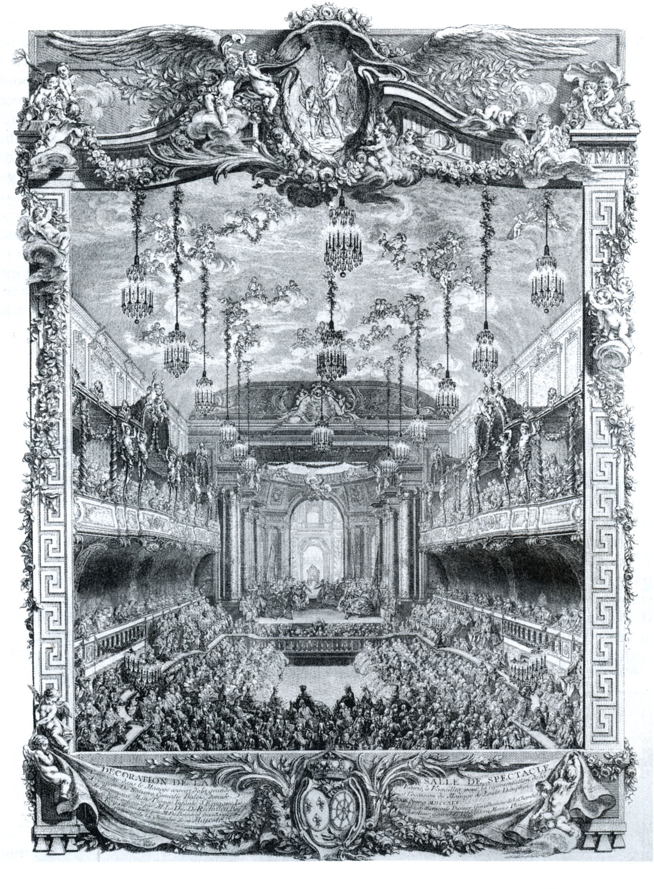 A performance of Rameau's La princesse de Navarre on 23 February 1745 in the theatre of the Grande Écurie, Versailles, as part of the celebrations of the marriage of the dauphin Louis to Maria Teresa of Spain.